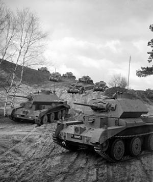 Cruiser Mk IVA tanks on exercise, 1st Armoured Division, 20 April 1941.